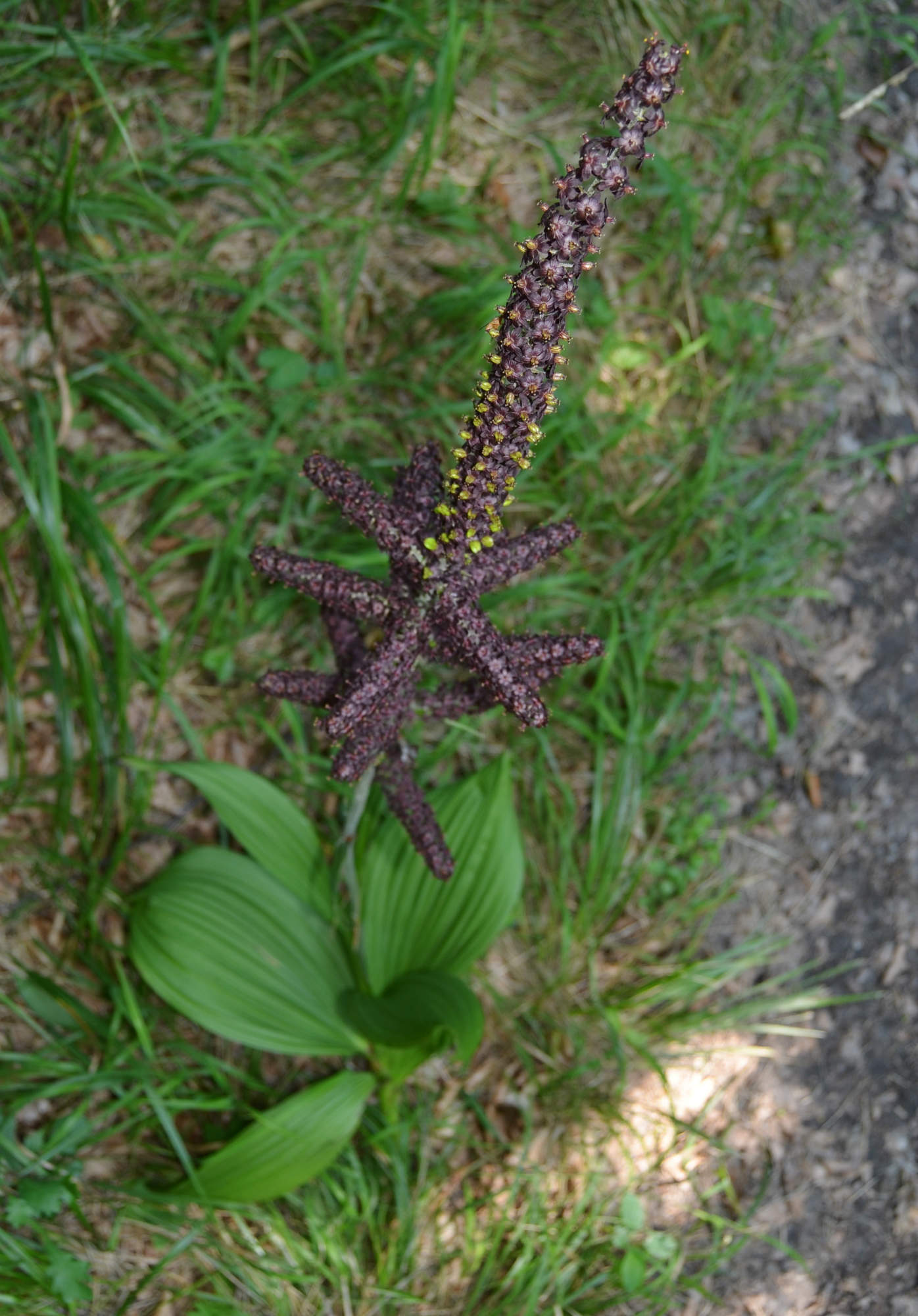 Veratrum nigrum. National natural monument Bílichovské údolí in Kladno District, Czech Republic